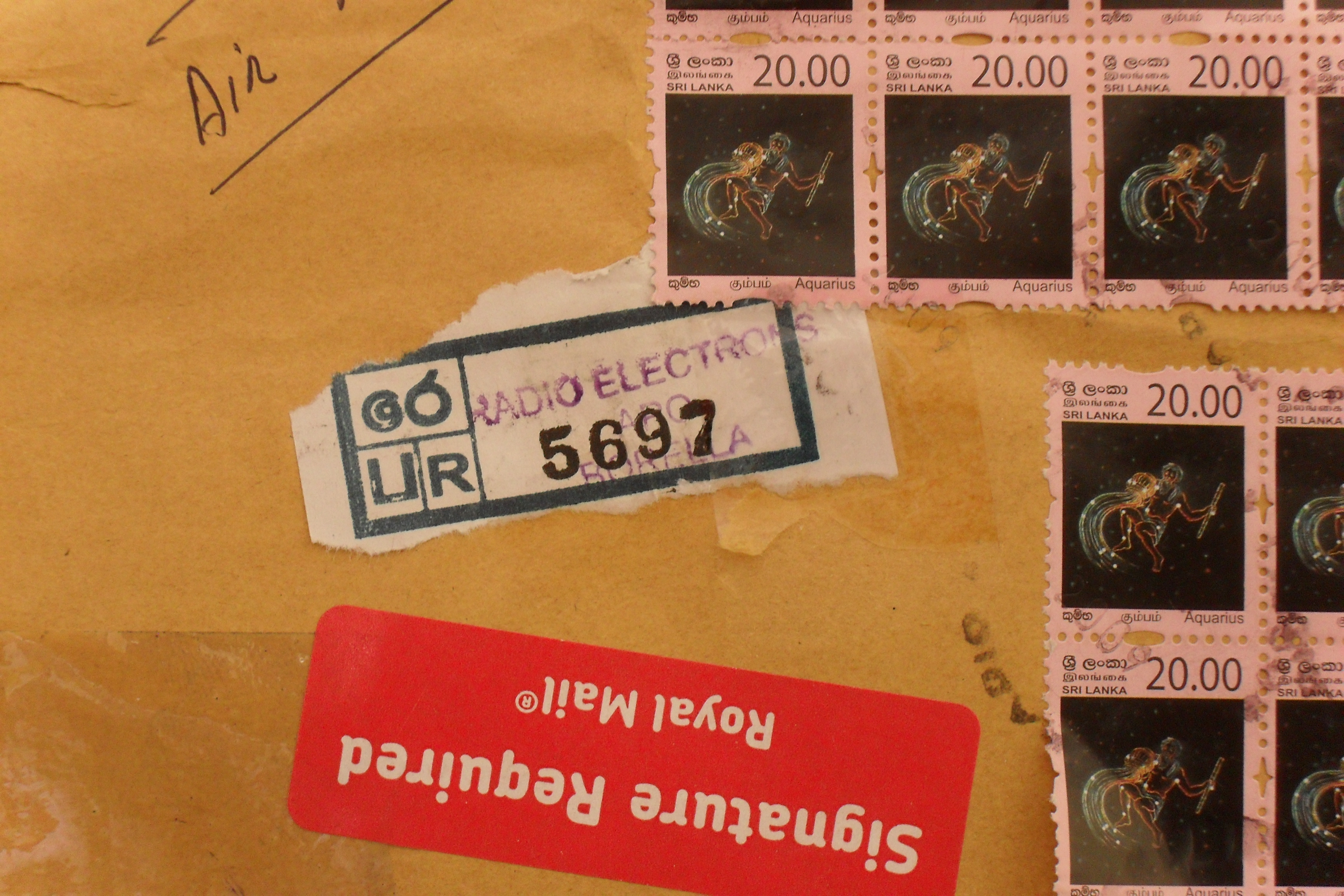 Registered mail from Sri Lanka to the UK.